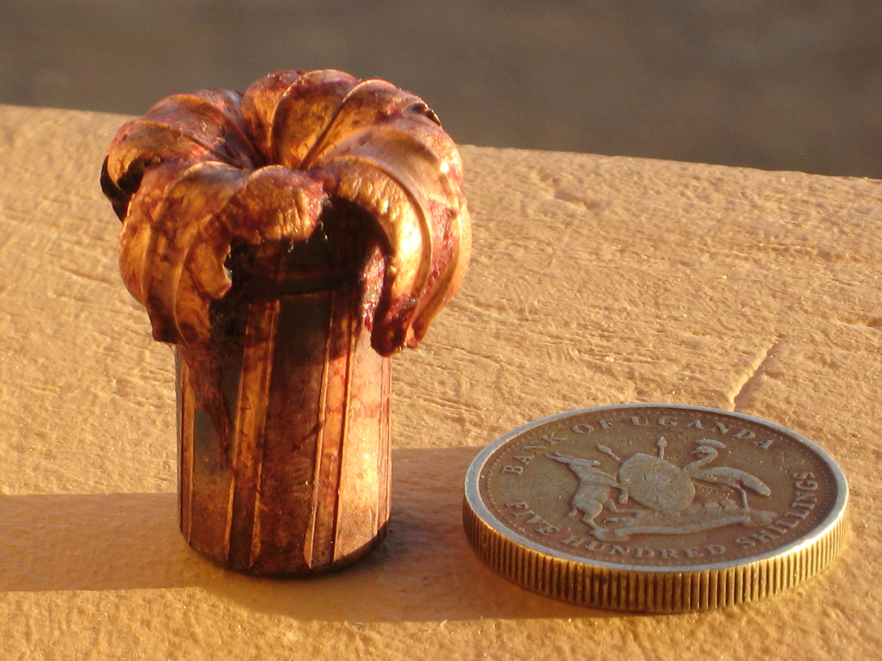 Expanding .458 caliber bullet after being fired into an African buffalo, Syncerus caffer, next to an Ugandan 500 shilling coin (23.50 mm diameter) for size comparison